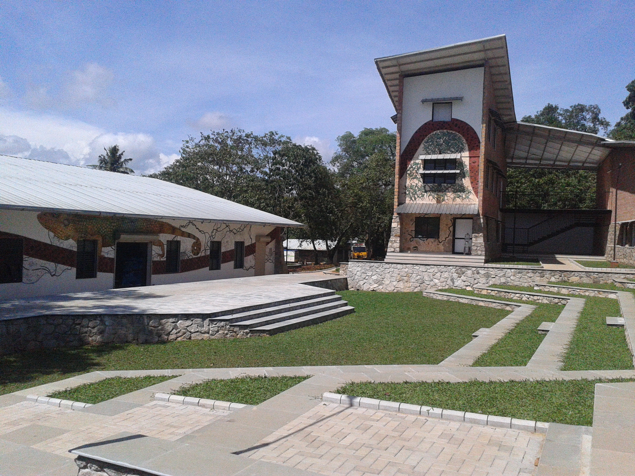 The Kerala State Institute of Design (KSID), Kollam campus